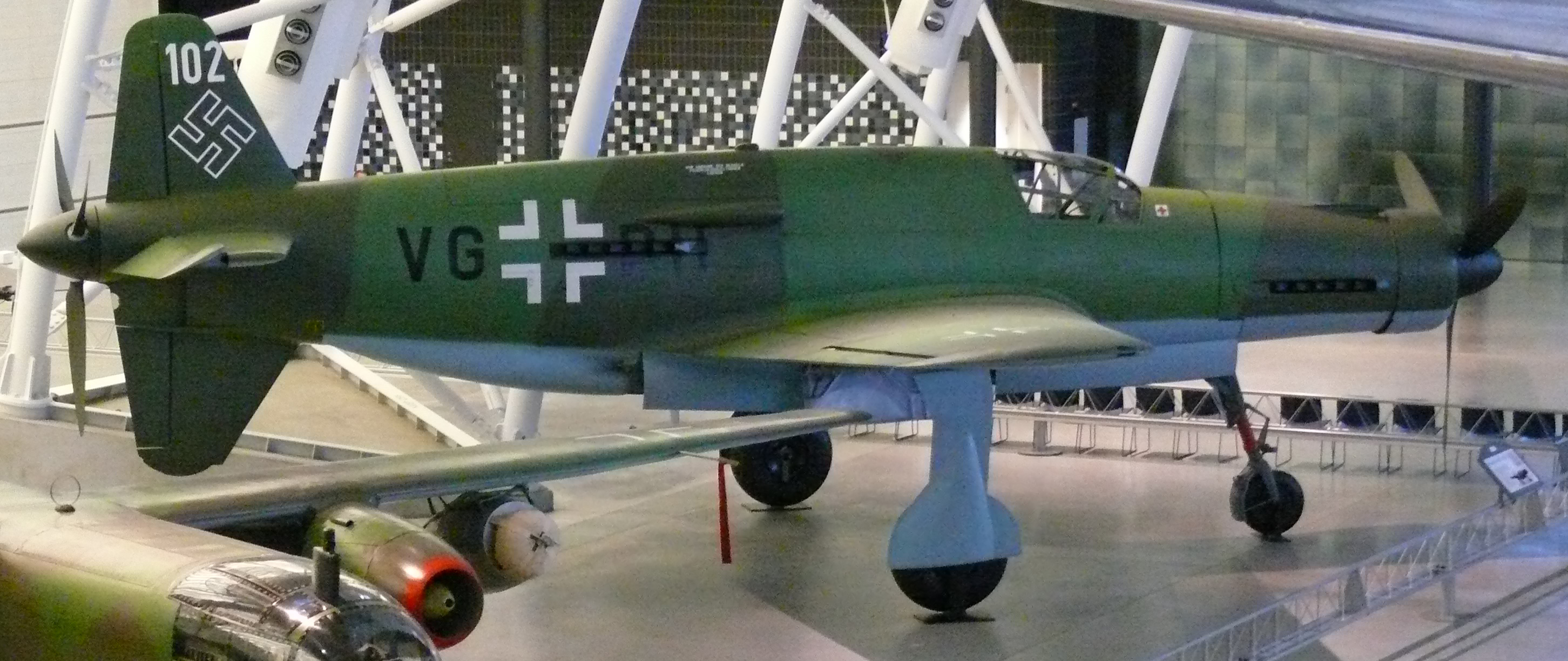 Dornier Do 335 Pfeil (Arrow) in the National Air and Space Museum, Steven F. Udvar-Hazy Center, Washington DC. The Dornier Do 335 Pfeil was a World War II heavy fighter built by the Dornier company. The two-seater trainer version was unofficially also called Ameisenbär ("anteater"). The Pfeil's performance was much better than other twin-engine designs due to its unique "push-pull" layout and the much lower drag of the in-line alignment of the two motors. The Luftwaffe was desperate to get the design into squadron use, but delays in engine deliveries meant only a handful were delivered before the war ended. The Do 335 of the NASM is the only one left. The aircraft was the second preproduction Do 335 A-0, designated A-02, with construction number (Werknummer) 240102, and factory radio code registration, or Stammkennzeichen, of VG+PH. In 1975 the aircraft was restored by Dornier employees, many of whom had worked on the airplane originally.